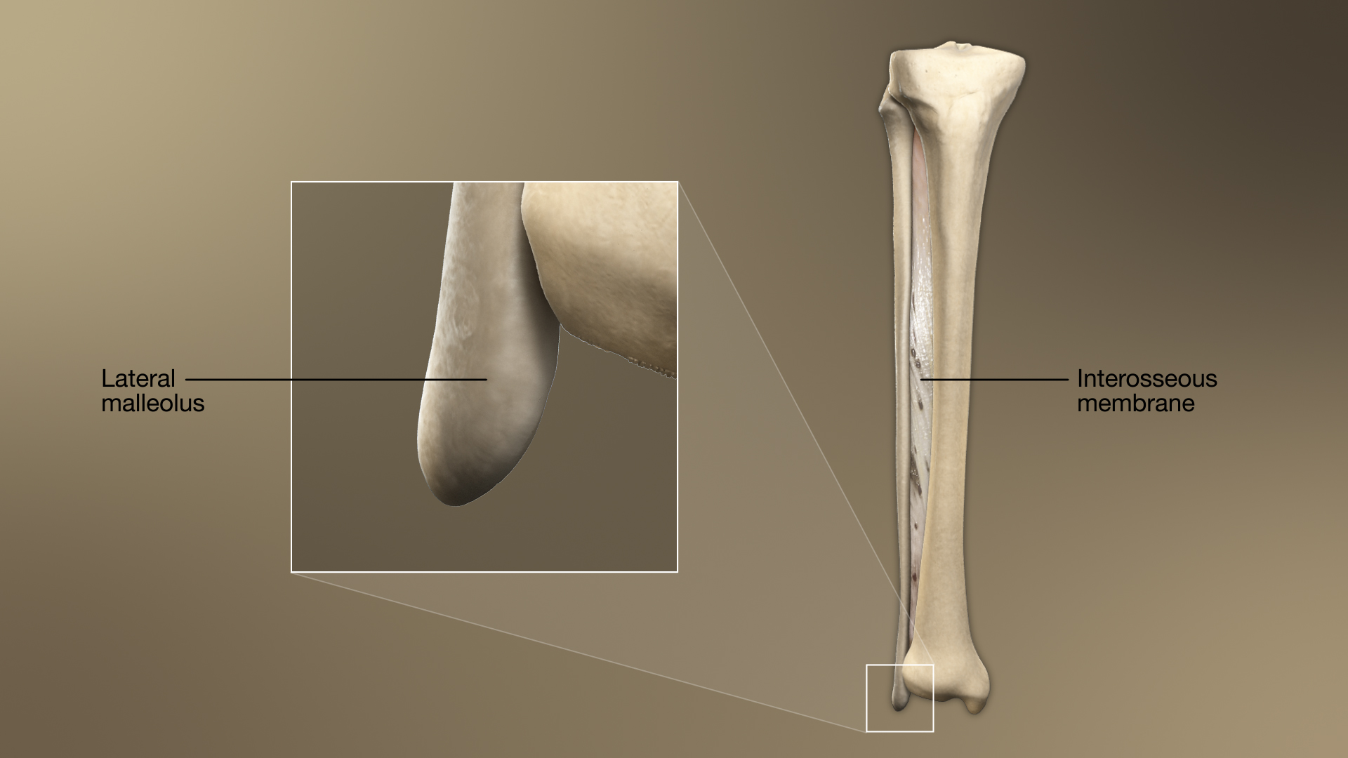 3D Medical illustration of the structure of Fibula bone.